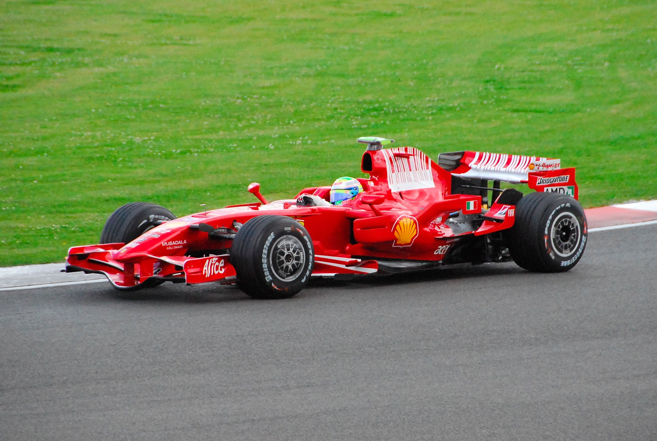 Felipe Massa driving for Scuderia Ferrari at the 2008 British Grand Prix.